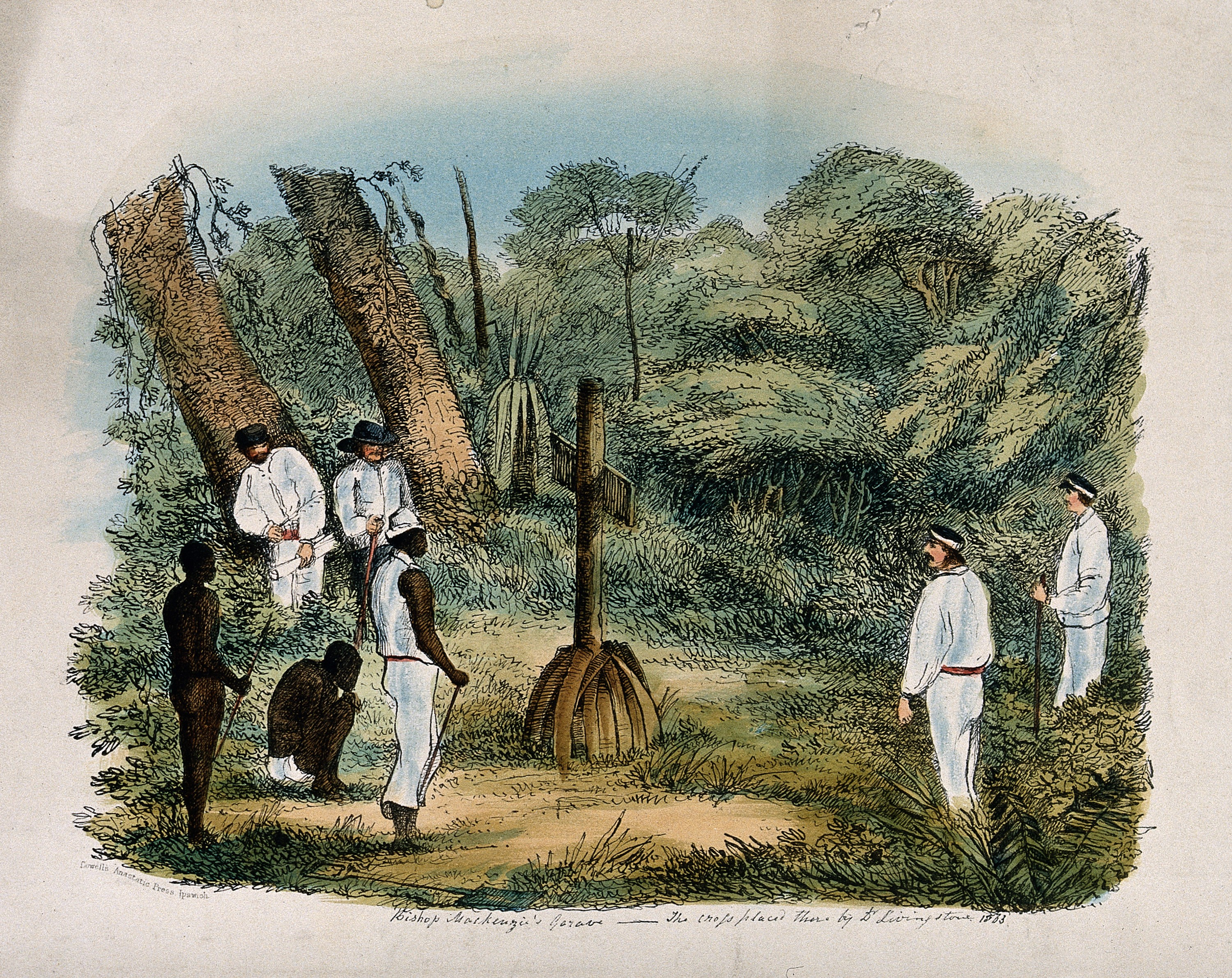 Bishop Mackenzie's grave with the cross placed there by David Livingstone; Europeans and Africans nearby. Lithograph. Iconographic Collections Keywords: David Livingstone